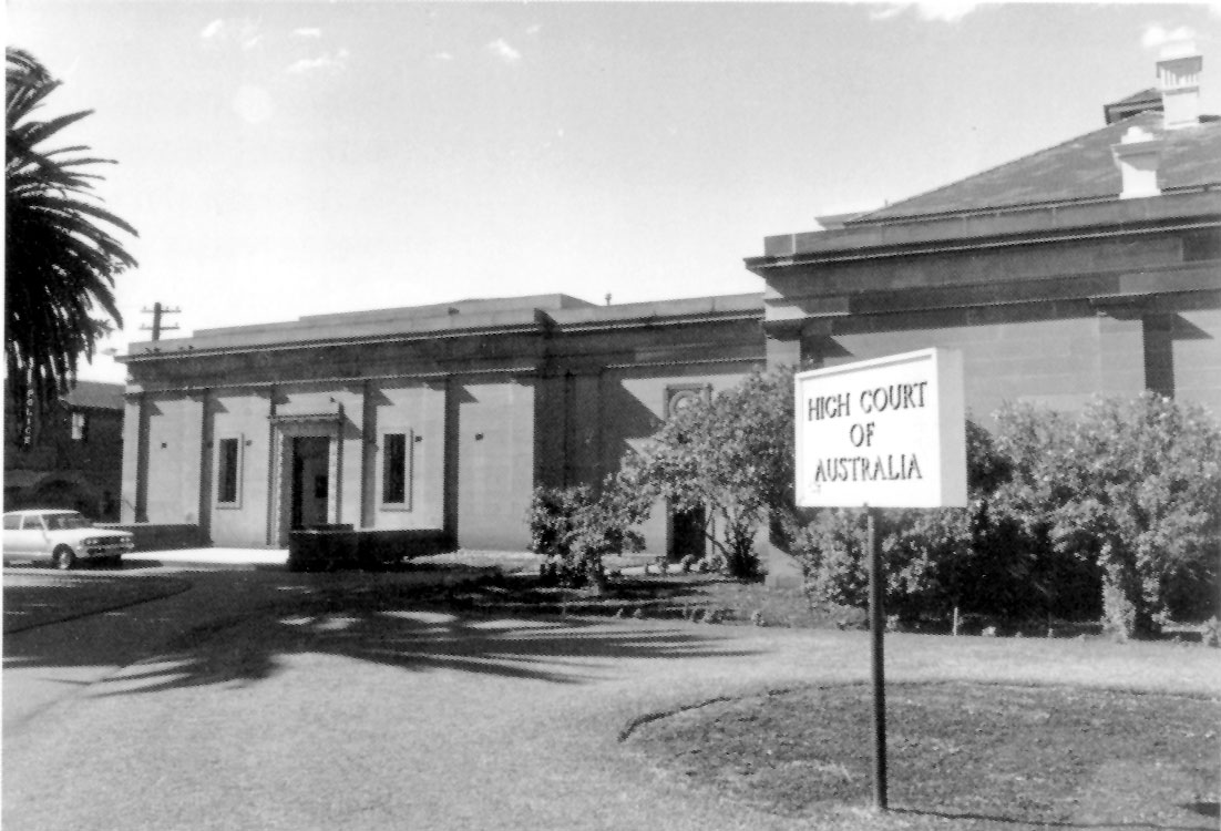 The dedicated facilities of the High Court of Australia in Sydney, an annex to the Criminal Courts at Darlinghurst, New South Wales. The facilities were used throughout the early part of the twentieth century. Photographed circa 1920.